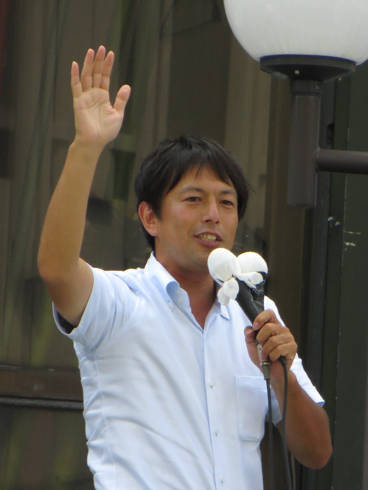 Takayuki Shimizu (Broadcaster from Japan. Member of the House of Councillors).